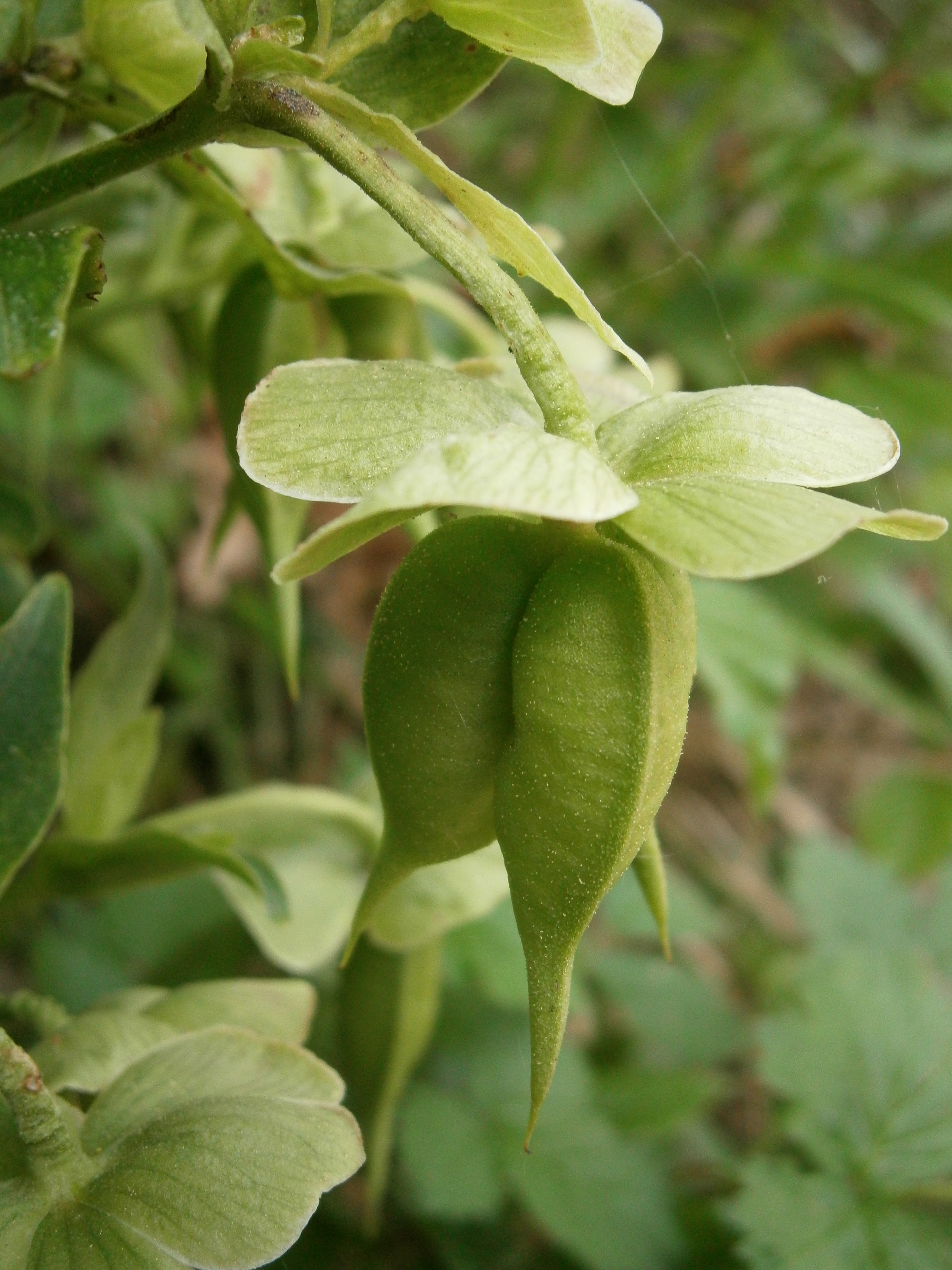 Helleborus foetidus fruit